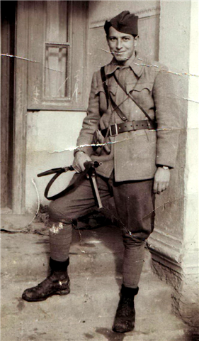 Yugoslav partisan, from Montenegro (mach, 1945) with British Sten submachine gun. Source:Family album of uploader .